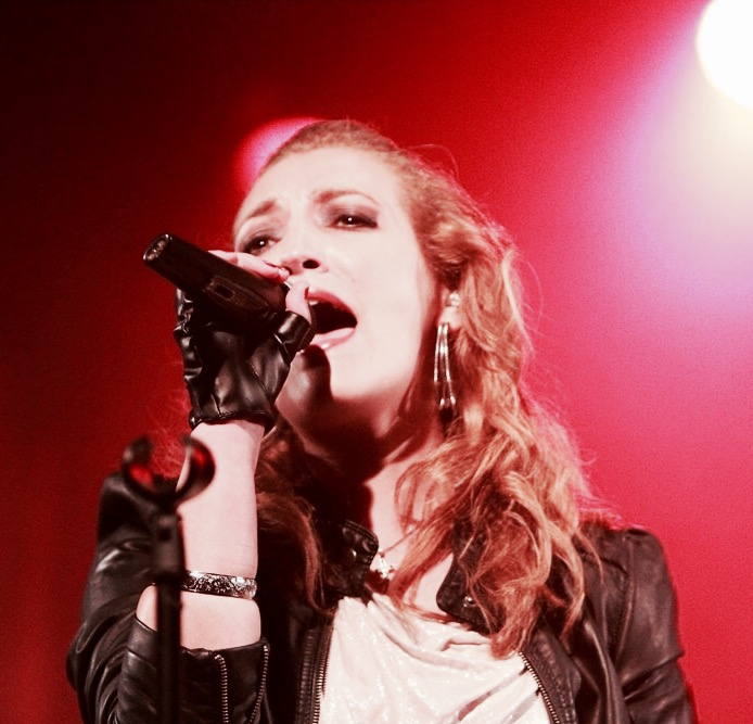 K-Bust performing live in Montreal at the "Urban Stories" album release party on May 23rd, 2012.